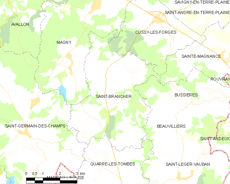 Map of French municipality Saint-Brancher